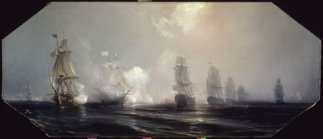 Auguste at the Battle of the Chesapeake